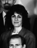 1992 Byzantine Studies Symposium Group (second from right, standing)